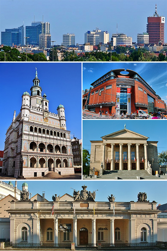 Collage of views of Poznań, Poland